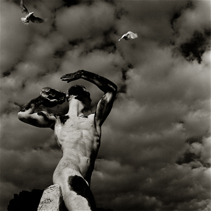 Roma - Augusto De Luca photo